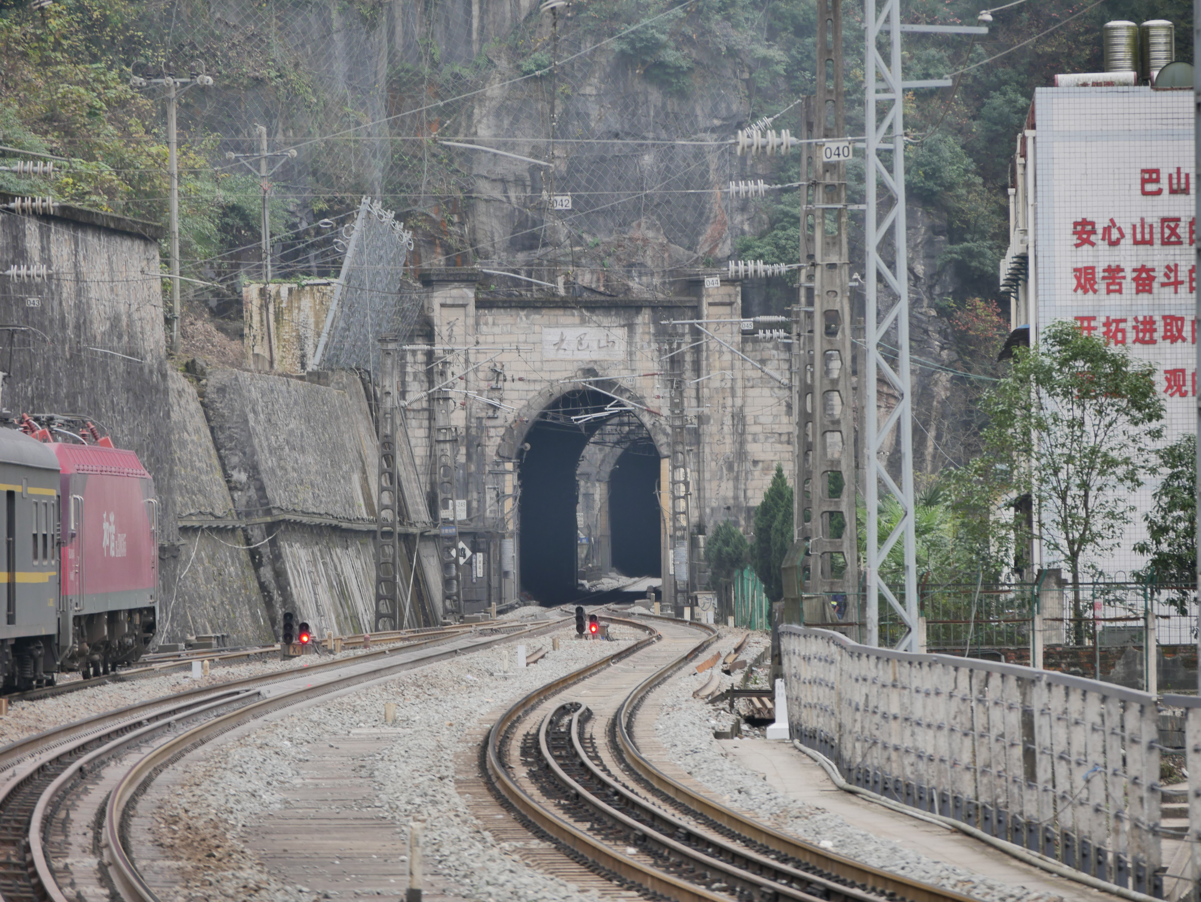 Dabashan tunnel